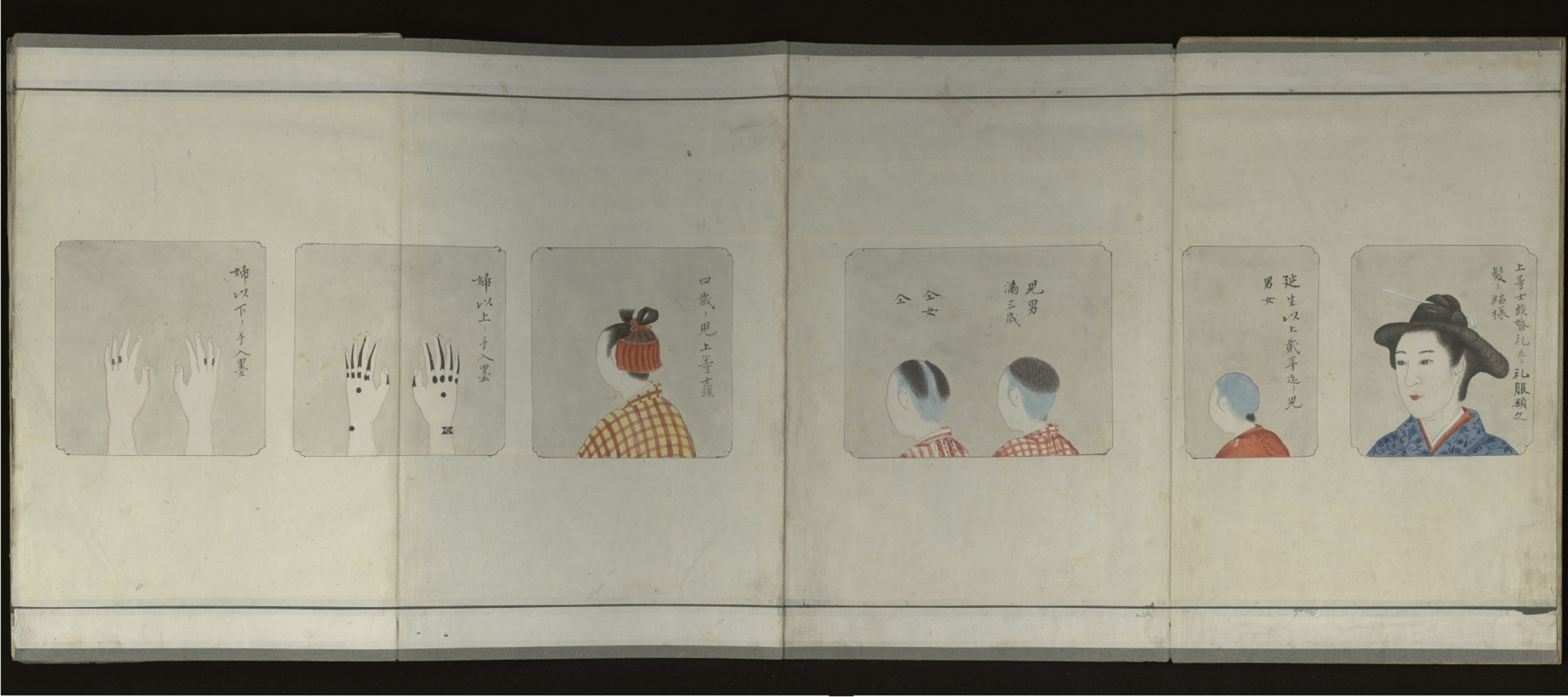 Title: Okinawa fūzoku no zu (Okinawan manners and customs, illustrated). This is a work by Nakasone Shōzan in 1889. An orihon (zigzag folded book). It illustrates people's hairstyles, tattoos, hairpins, merchants' customs, wedding ceremonies, funerals, etc. with varicolored drawings. This is a very valuable material for understanding the people of that period.